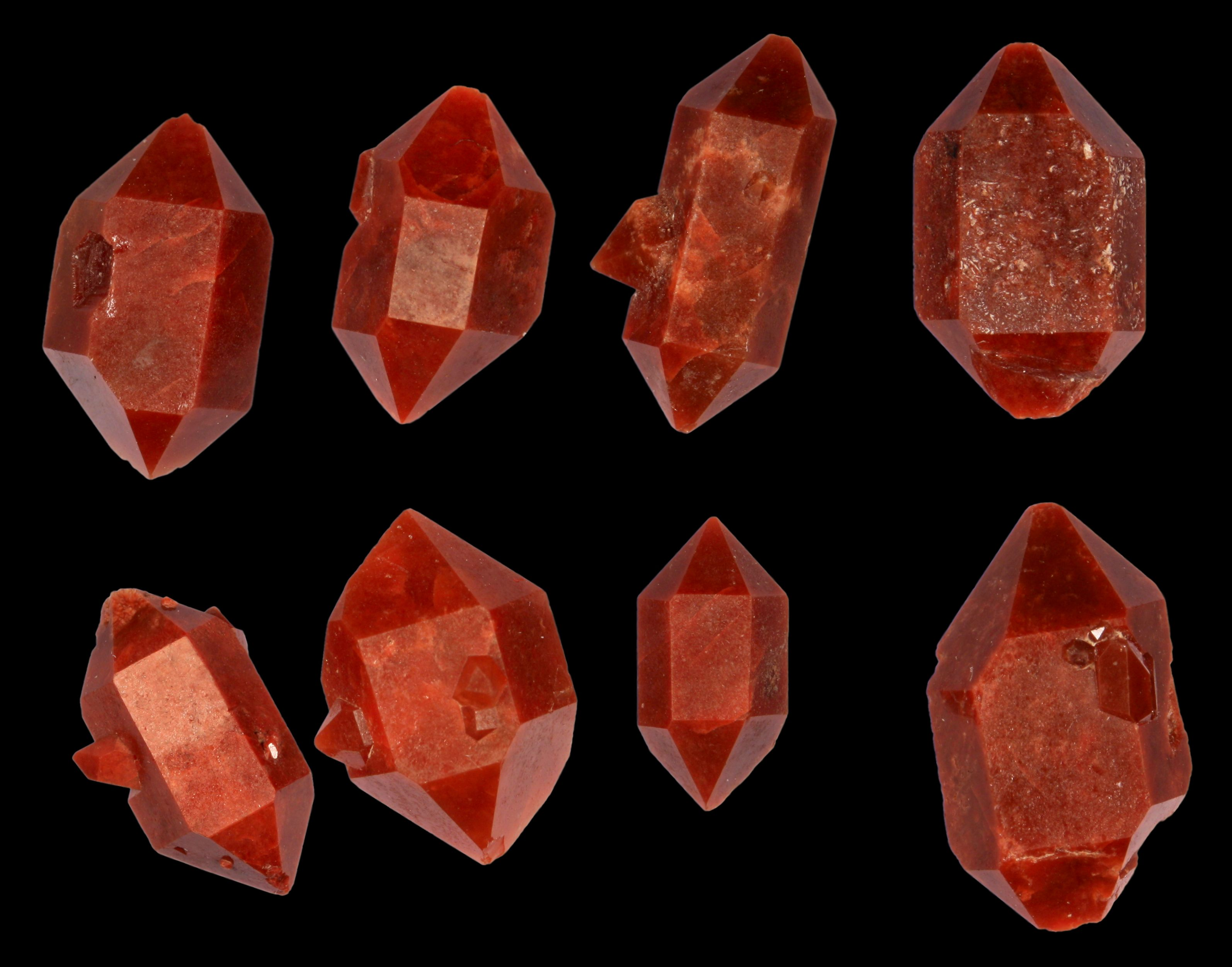 Double-terminated quartz crystals from Spain. Red color is due to hematite inclusions. The width of the view is 4 cm. Additional information from the source: [2]